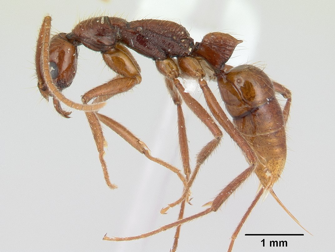 Profile view of ant Leptogenys amazonica specimen casent0178836.